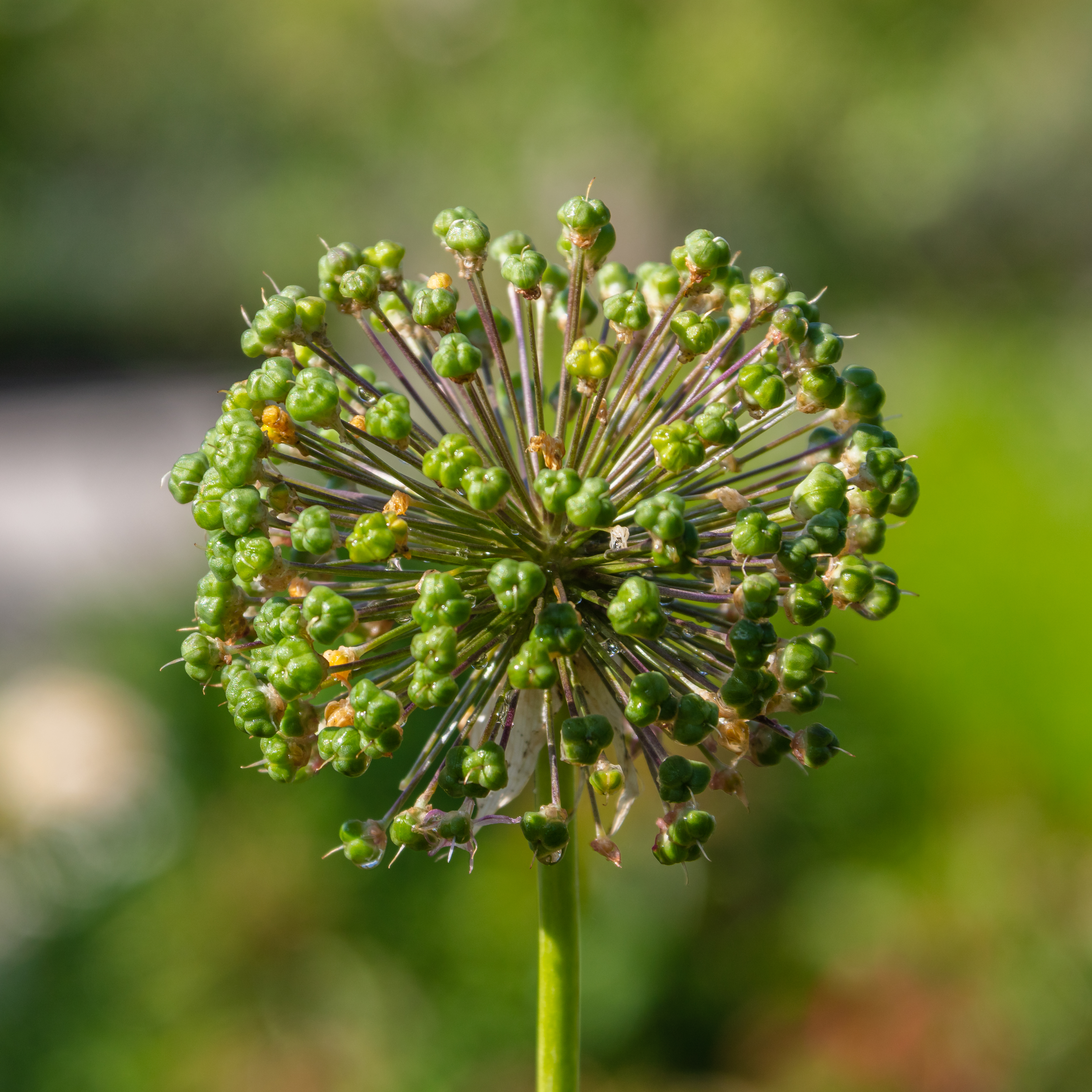 Allium stipitatum, Bad Wörishofen, Germany